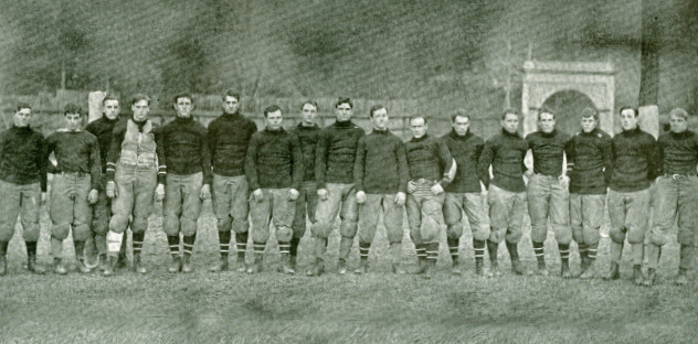 Cornell's 1904 varsity football team (L to R) E. J. Bird, G. S. Dewey, M. S. Halliday, L. A. Wilder, G. T. Cook, J. H. Costello, F. W. Hackstaff, E. T. Gibson, C. V. Cox, C. A. Martinez, J. E. Forgy, F. J. Furman, C. C. Oderkirk, L. J. Rice, R. Van Orman, James Lynah (captain), G. M. Chapmam